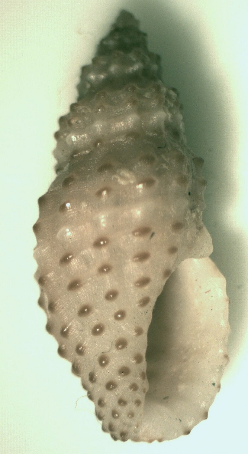 Pseudodaphnella granicostata(synonym: Philbertia granicostata L. A. Reeve, 184)6, a cone snail from the family Raphitomidae; Philippines